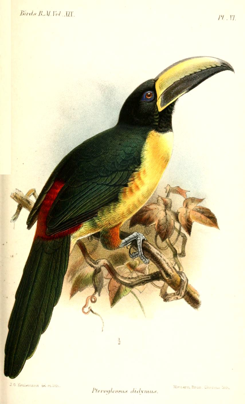 Pteroglossus didymus = Pteroglossus inscriptus humboldti, Lettered Aracari ssp.